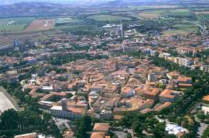 see image with same name at